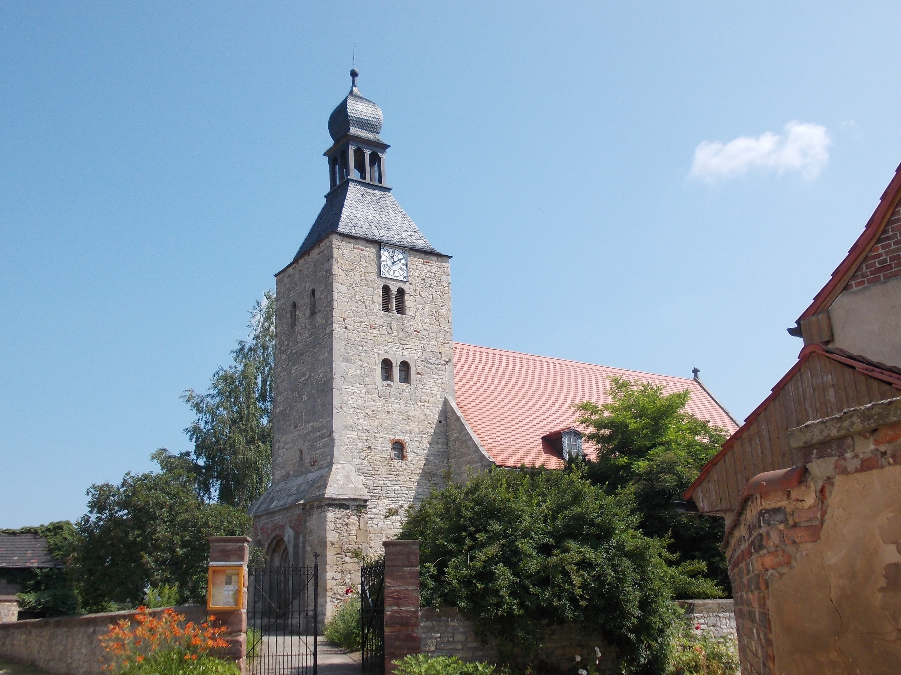 Ebersroda church (Gleina, district: Burgenlandkreis, Saxony-Anhalt)